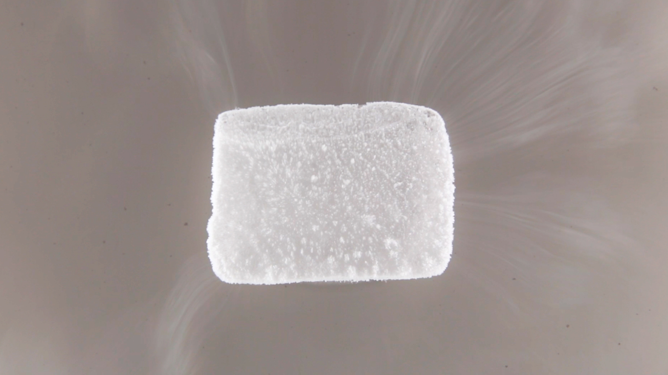 melting of dry ice